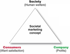 Societal Marketing Level